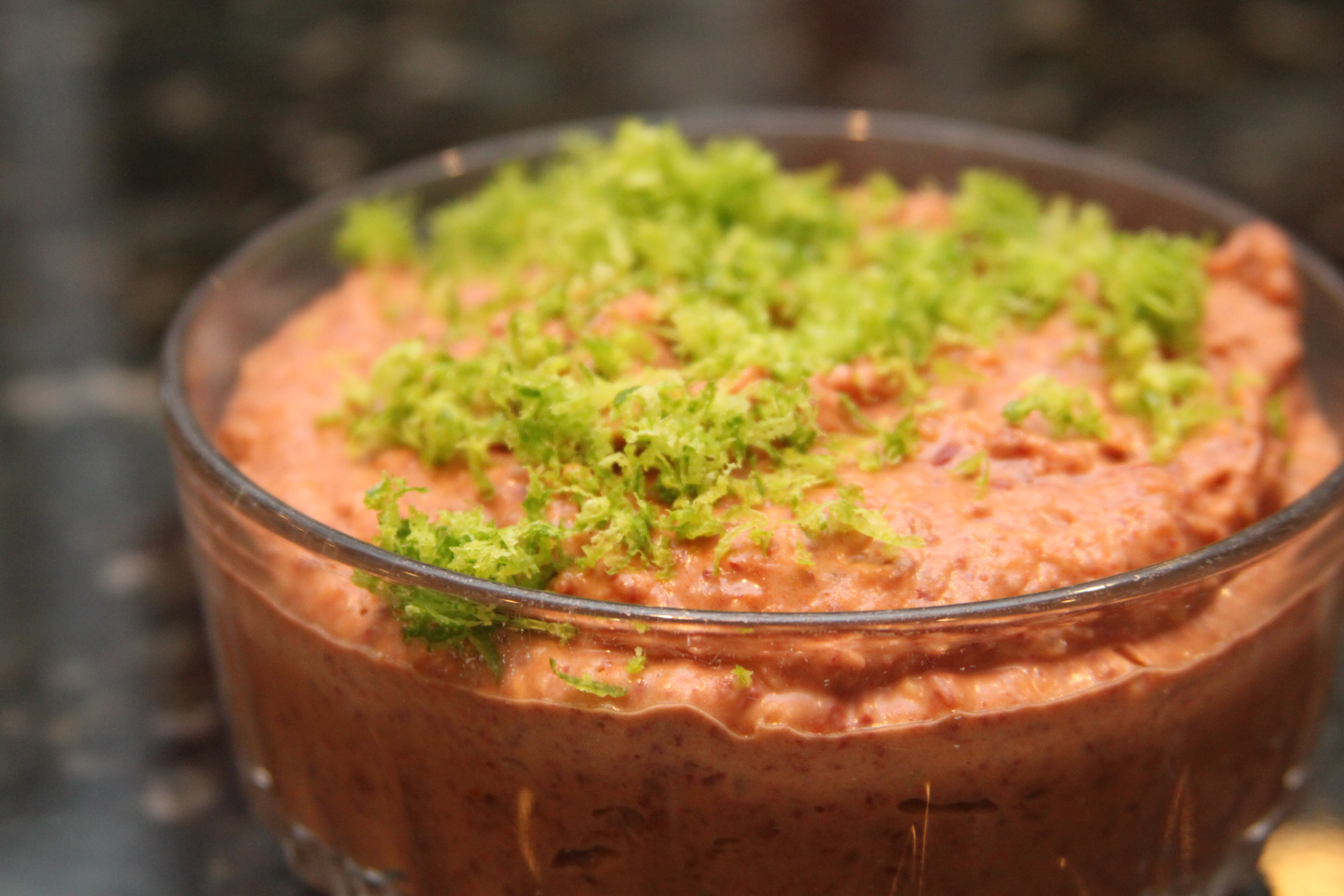 Nigella Lawson’s red kidney bean dip. Check out the recipe test drive of this over on CliqueClack Food!